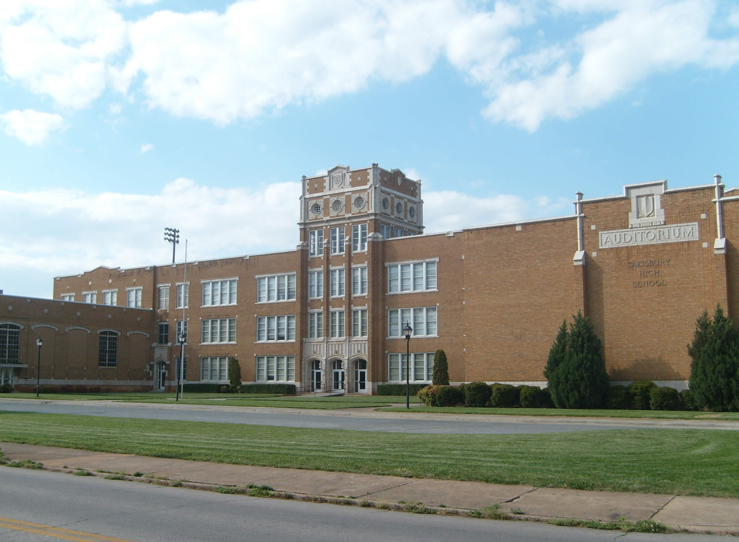 Photo of front entrance to Salisbury High School (Salisbury, North Carolina). Formerly called Boyden High School. On the National Register of Historic Places.